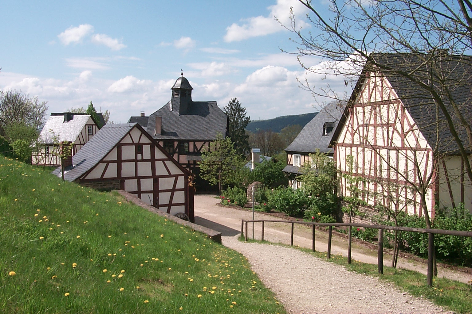 the hunsrueck village in the open air museum Roscheider Hof, Konz, Germany Das Hunsrückdorf im Freilichtmuseum Roscheider Hof, Konz, Deutschland